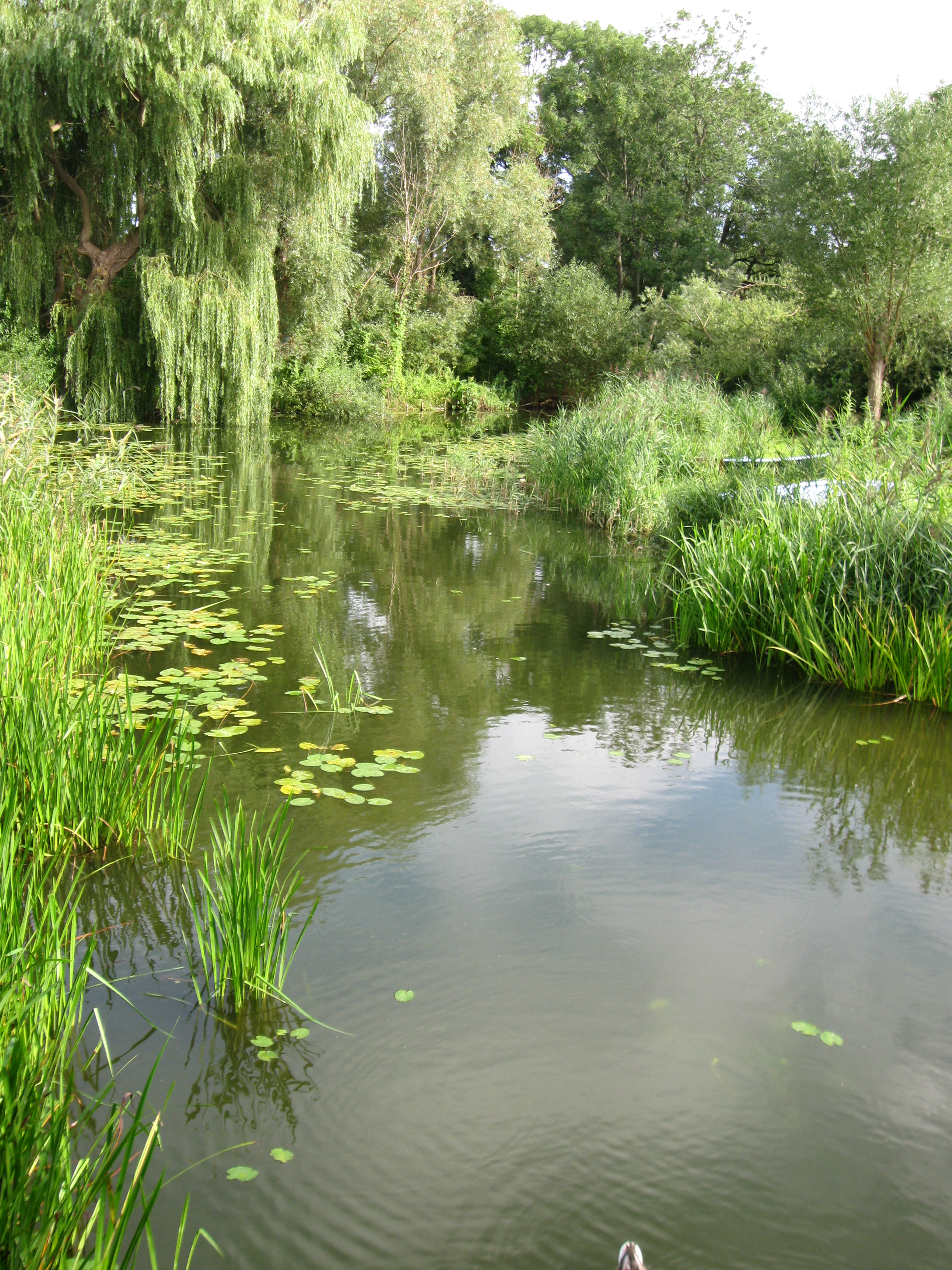 The river Teppnitzbach in Warin